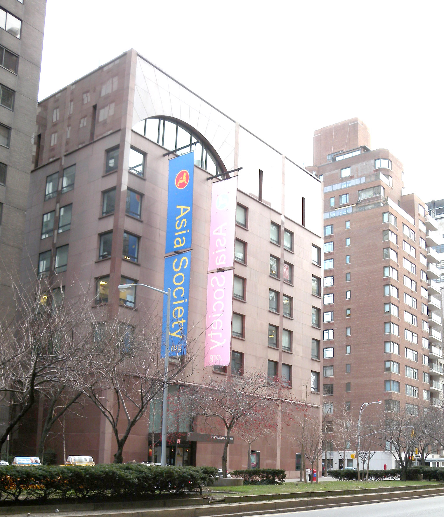 Looking south across Park Avenue at Asia Society on a cloudy afternoon.